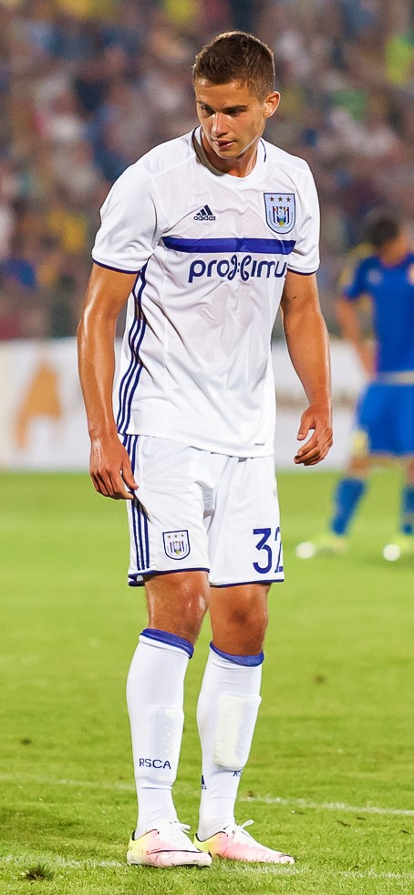 Leander Dendoncker